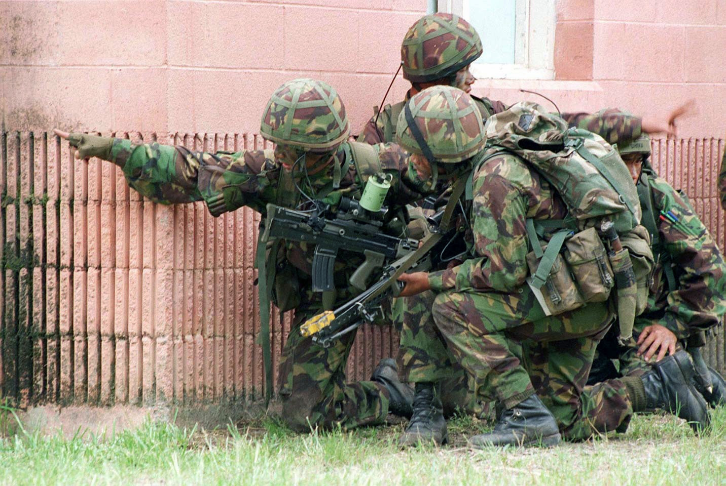 DMSD9800170 Members of a British Gurkha unit prepare to enter a building to clear it at the MOUT facility. Their opposing force is Fox Company, 2d Battalion, 6th Marines, 2d Marine Division. MARINE CORPS BASE, CAMP LEJEUNE, NORTH CAROLINA (NC) UNITED STATES OF AMERICA (USA)